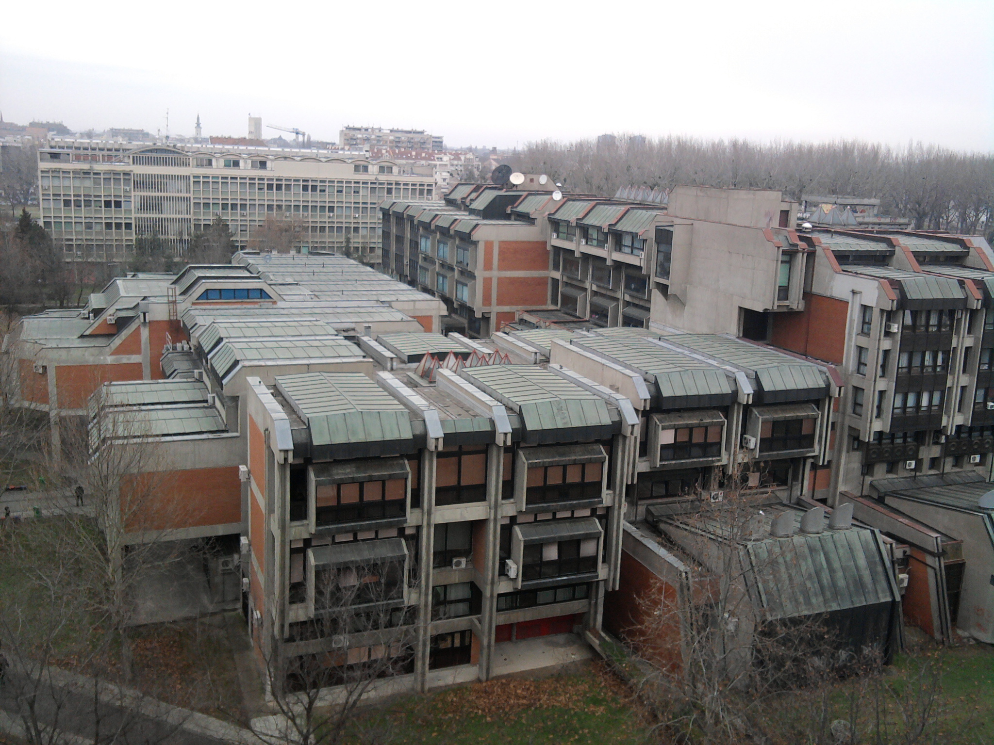 Law school in Novi Sad